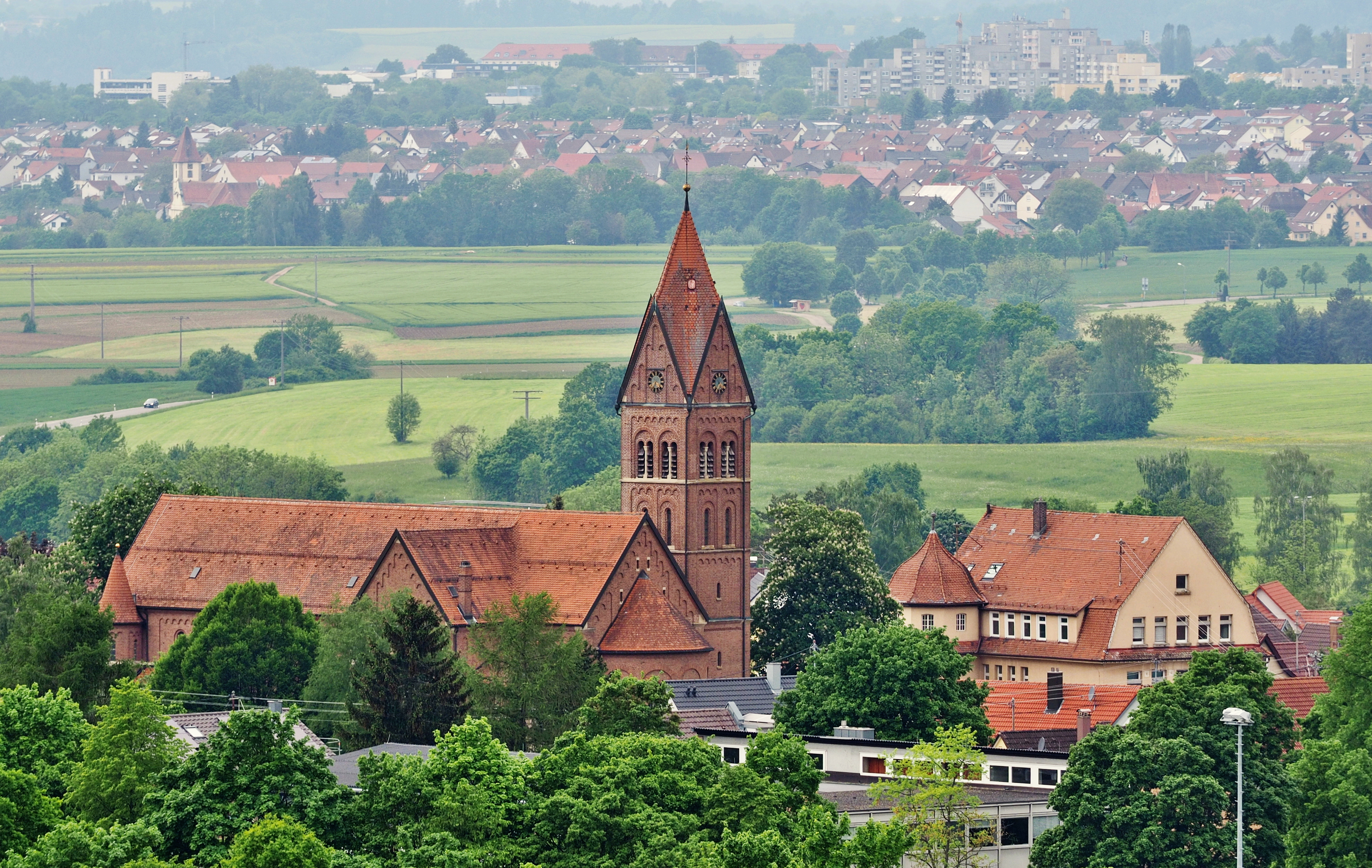 St James church and old school house in Bargau, Germany, with Oberbettringen in the background